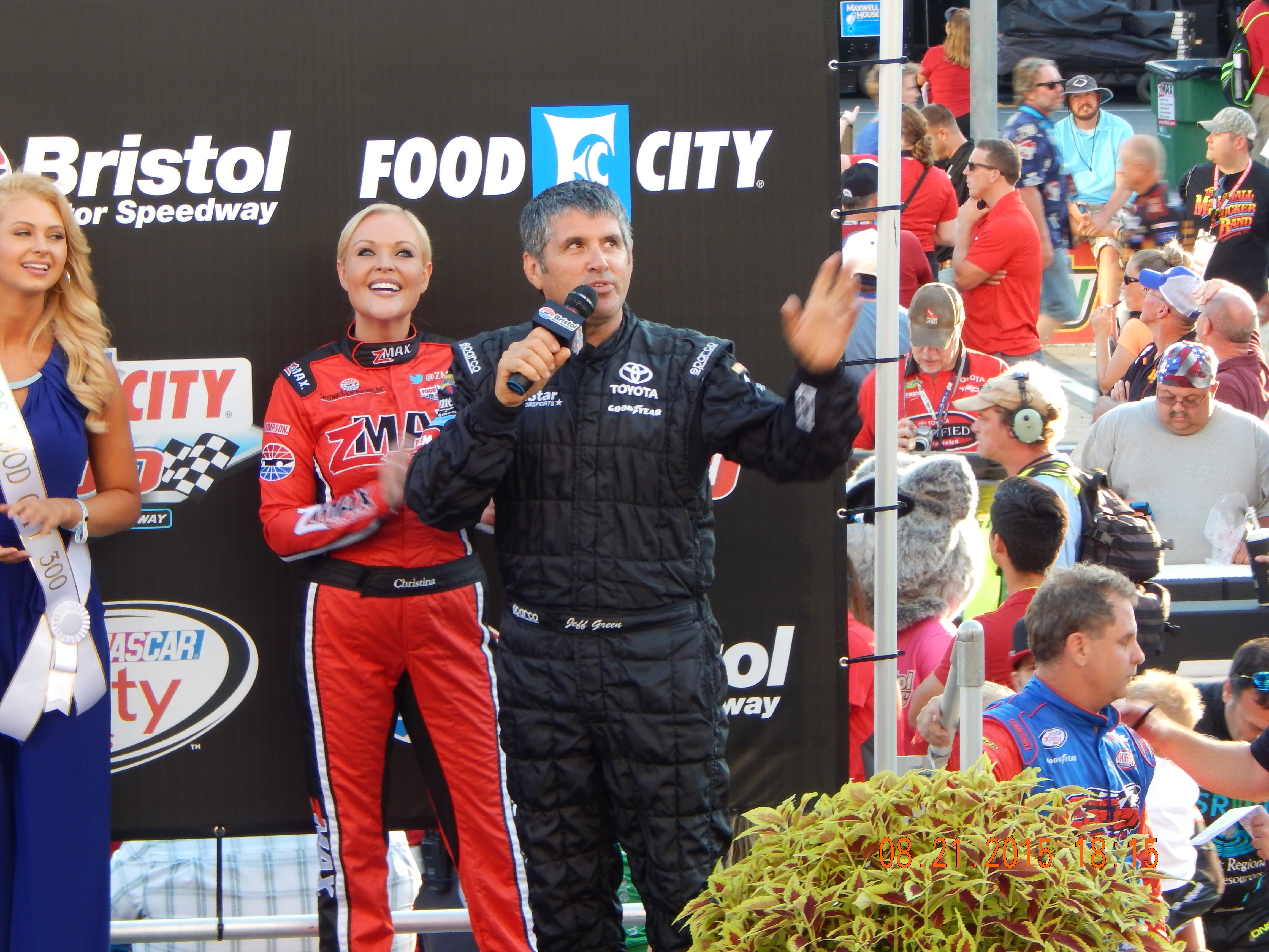 Jeff Green being introduced at Bristol Motor Speedway for the 2015 Food City 300.